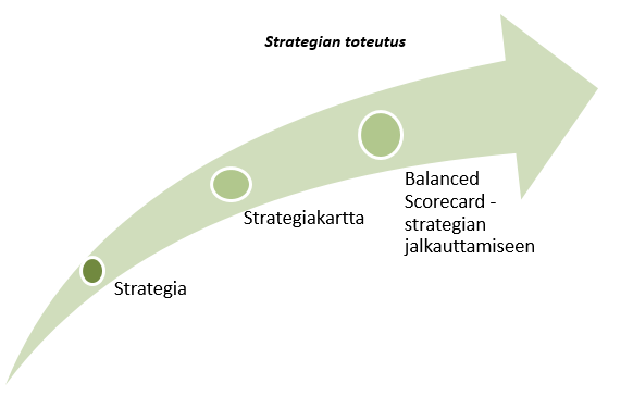 A picture used to explain strategy maps in its Finnish article.